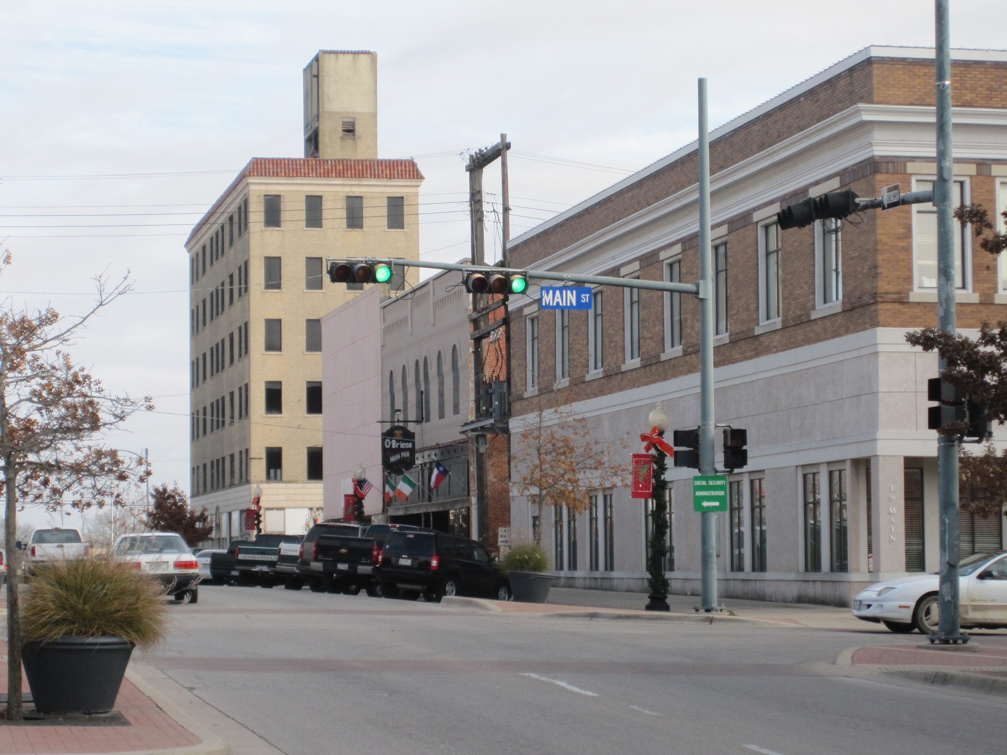 Downtown scene of Temple, TX, at Main Street near the Municipal Building